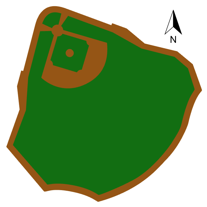 A diagram of the field at First Tennessee Park in Nashville, Tennessee